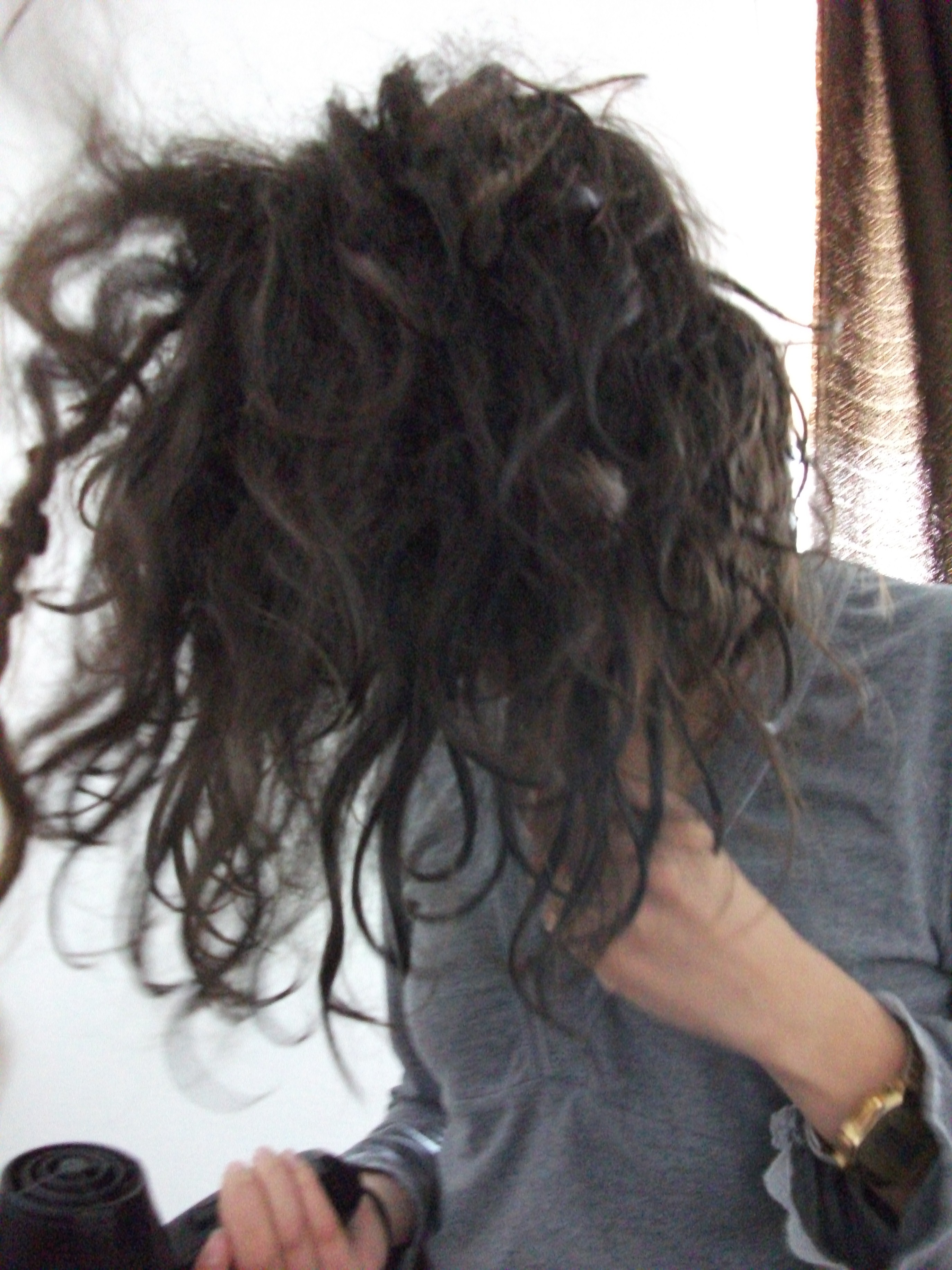 Dry it all